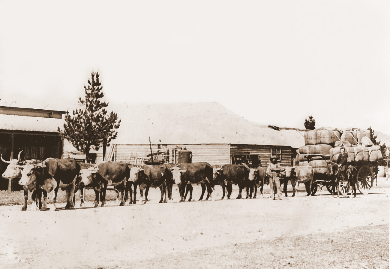 Henry Goodwin (standing) with his bullock team hauling "Emu Creek" wool, Fitzroy St., Walcha, NSW